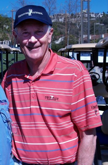 I personally took this photo of NASA astronaut Charlie Duke in San Diego.